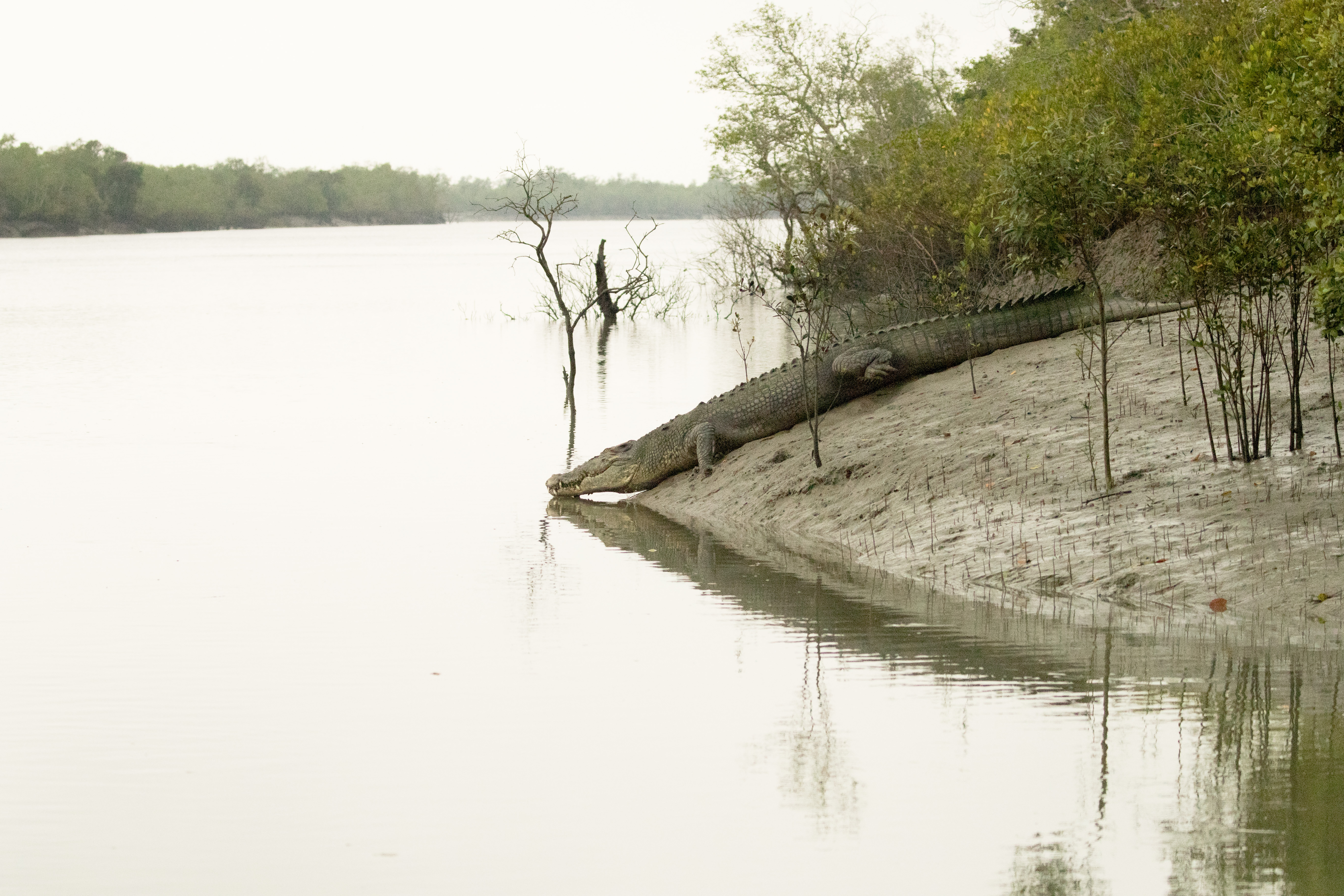 Salt-Water Crocodile